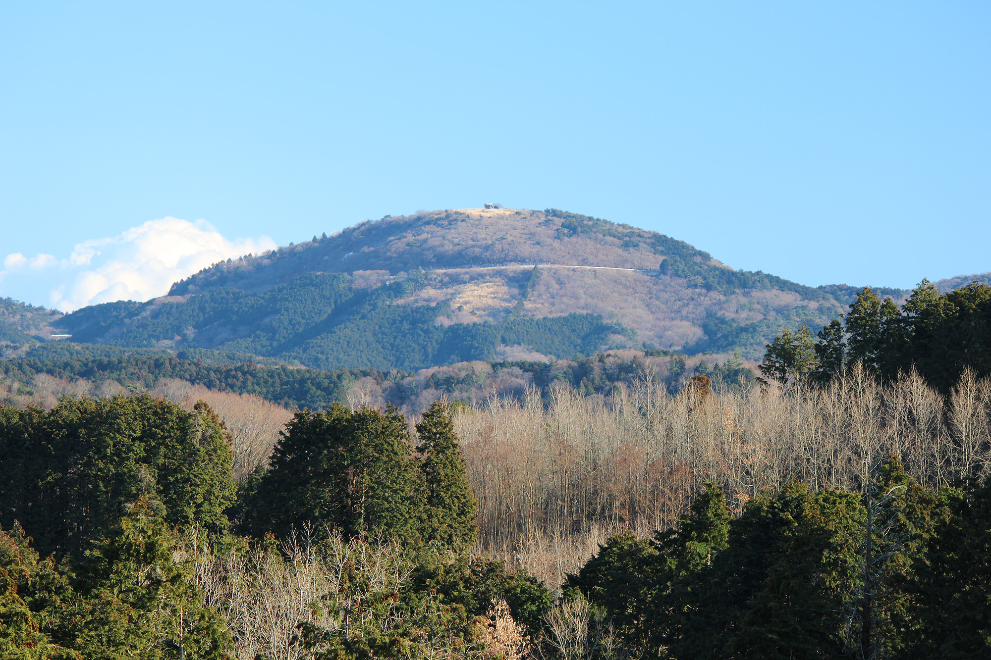 Mount Sukumo (Sukumo-yama) as seen from the northwest in Izu Peninsula, Shizuoka Prefecture, Japan, which is a one of the volcano of the Izu-tobu Volcano Group.